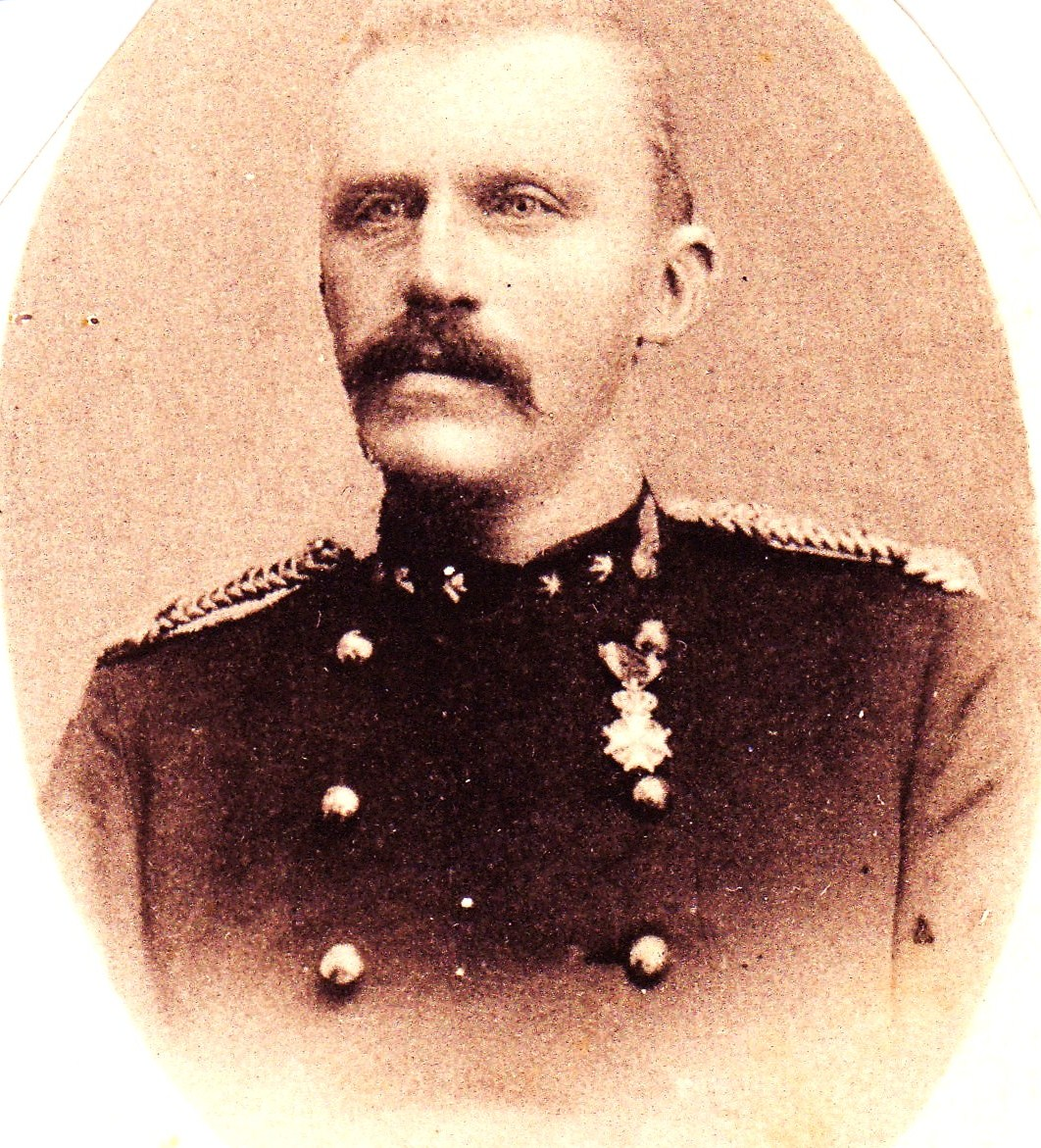 Jouwert Witteveen